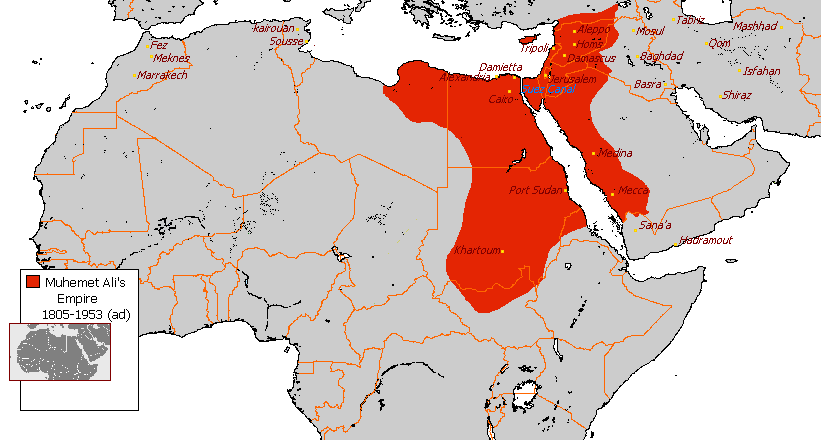 Muhammad Ali Pasha's 19th-century empire at its greatest extent.